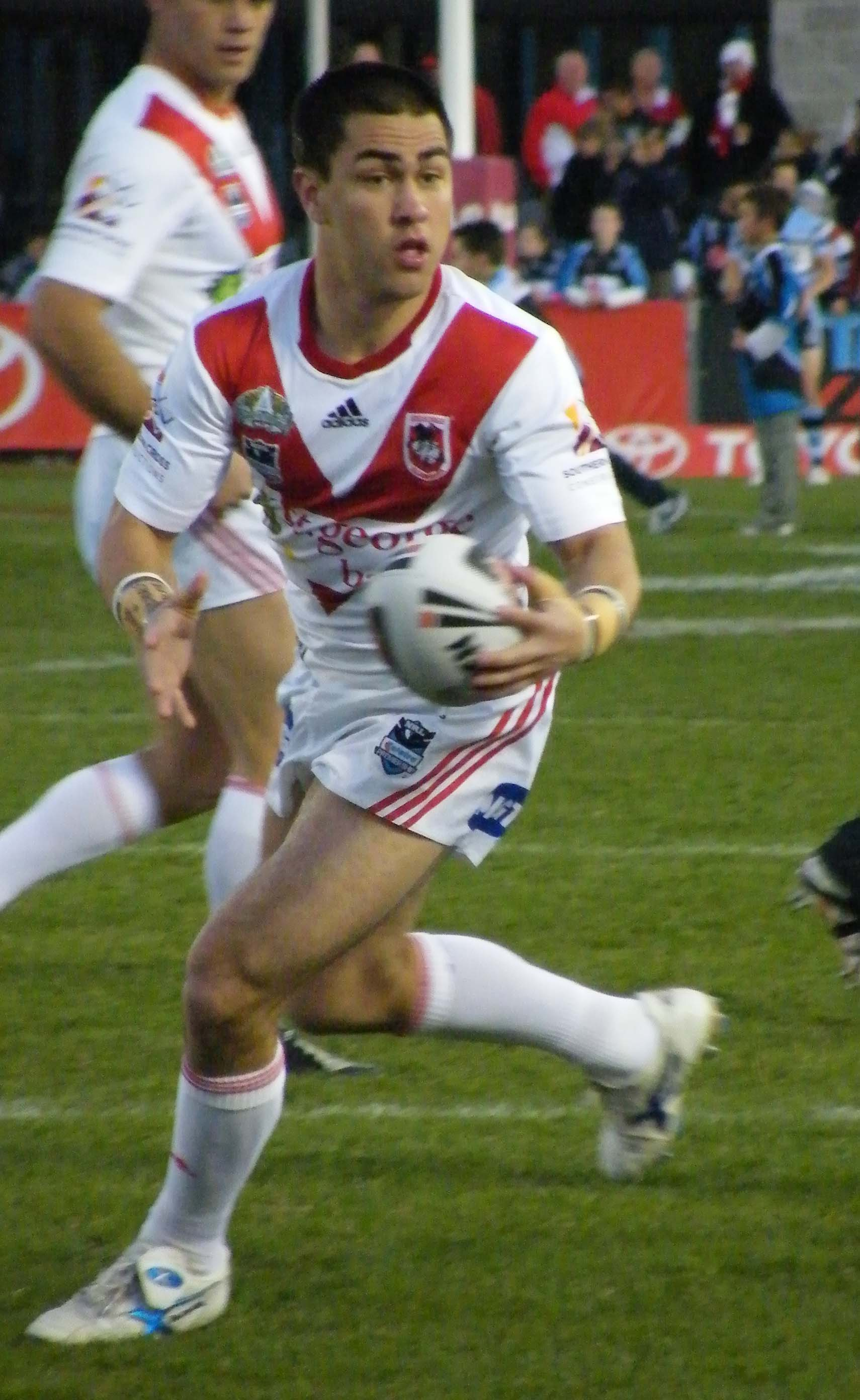 Jamie Soward pratices prior to the match against Cronulla.